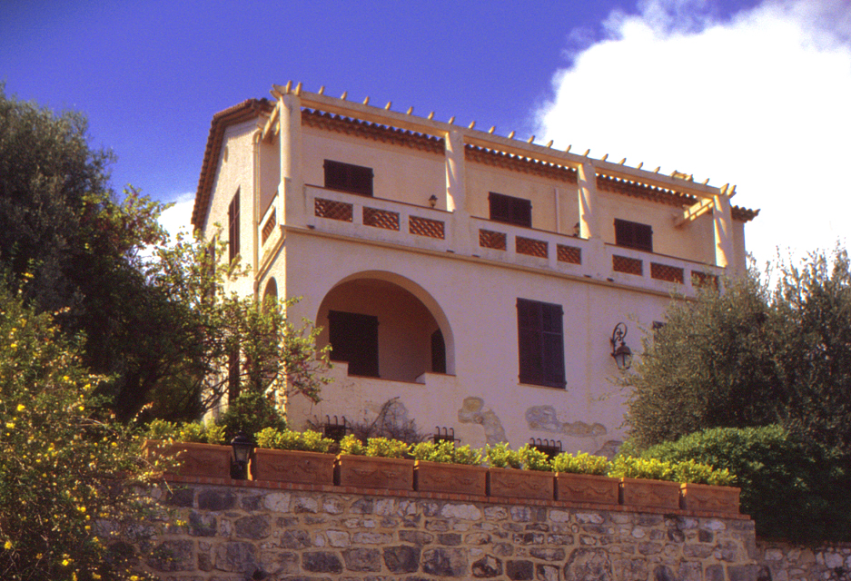 Residence Villa Primavera of Han van Meegeren 1932 - 1938 in Roquebrune-Cap-Martin, Avenue des Cyprès 10, France. Han van Meegeren lived here in the years 1932 - 1938. In the Villa Primavera he painted his forgery "The Supper at Emmaus".